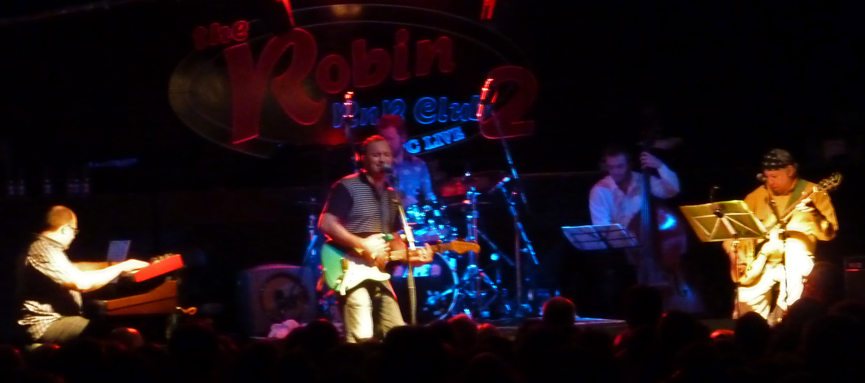 Peter Green on stage at the Robin with keyboard player Geraint Watkins, stand-up bass of Matt Radford and the blues-driven grooves of drummer Andrew Flude, plus the rhythm guitar of Mike Dodd.